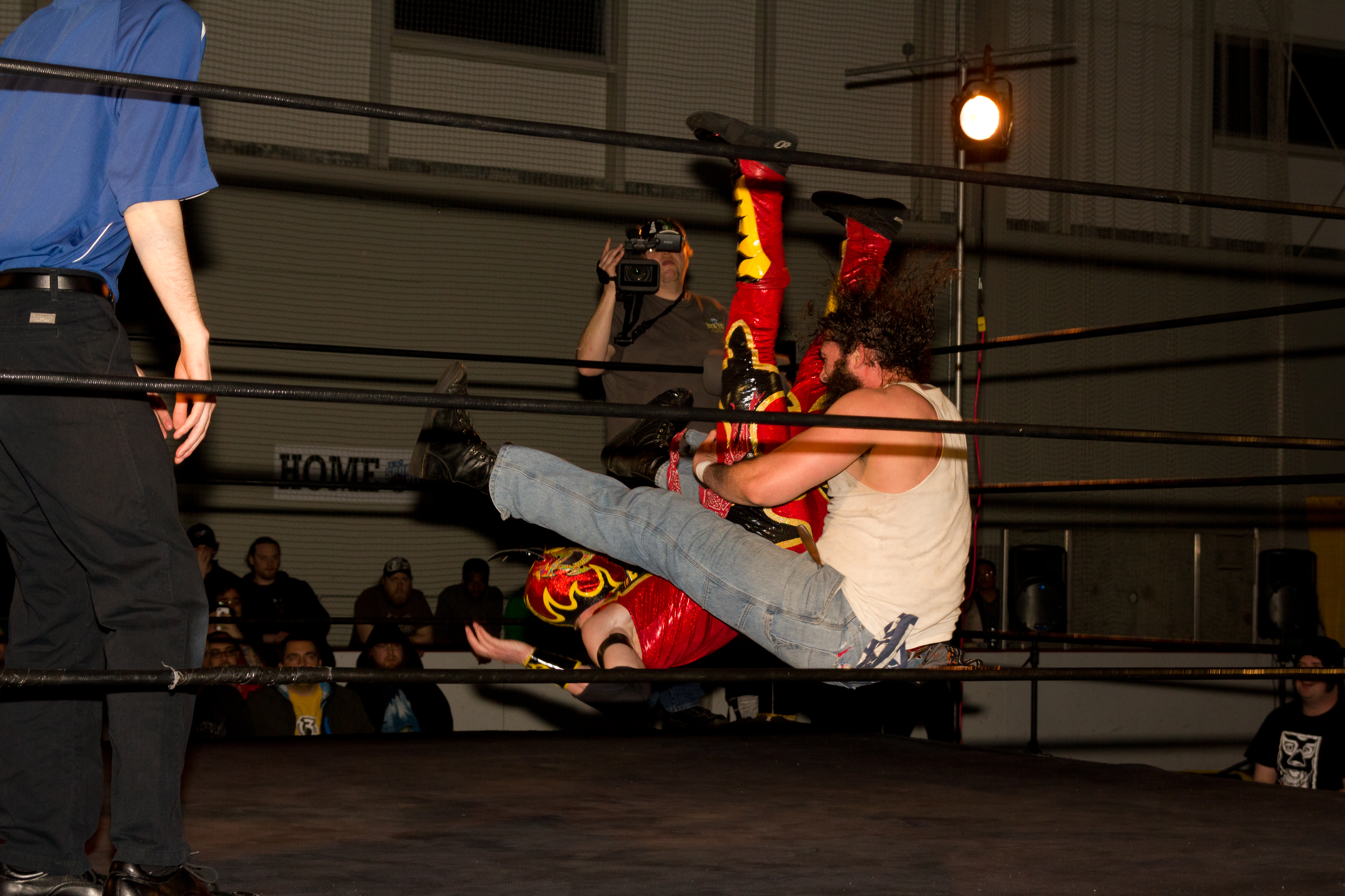 Professional wrestler Brodie Lee performing a sitout powerbomb on Fire Ant at a CHIKARA event.